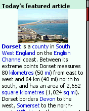 Screenshot of the English Wikipedia's main page on December 20, 2007 viewed with Opera Mini 3 Basic with the font size set to "Large"